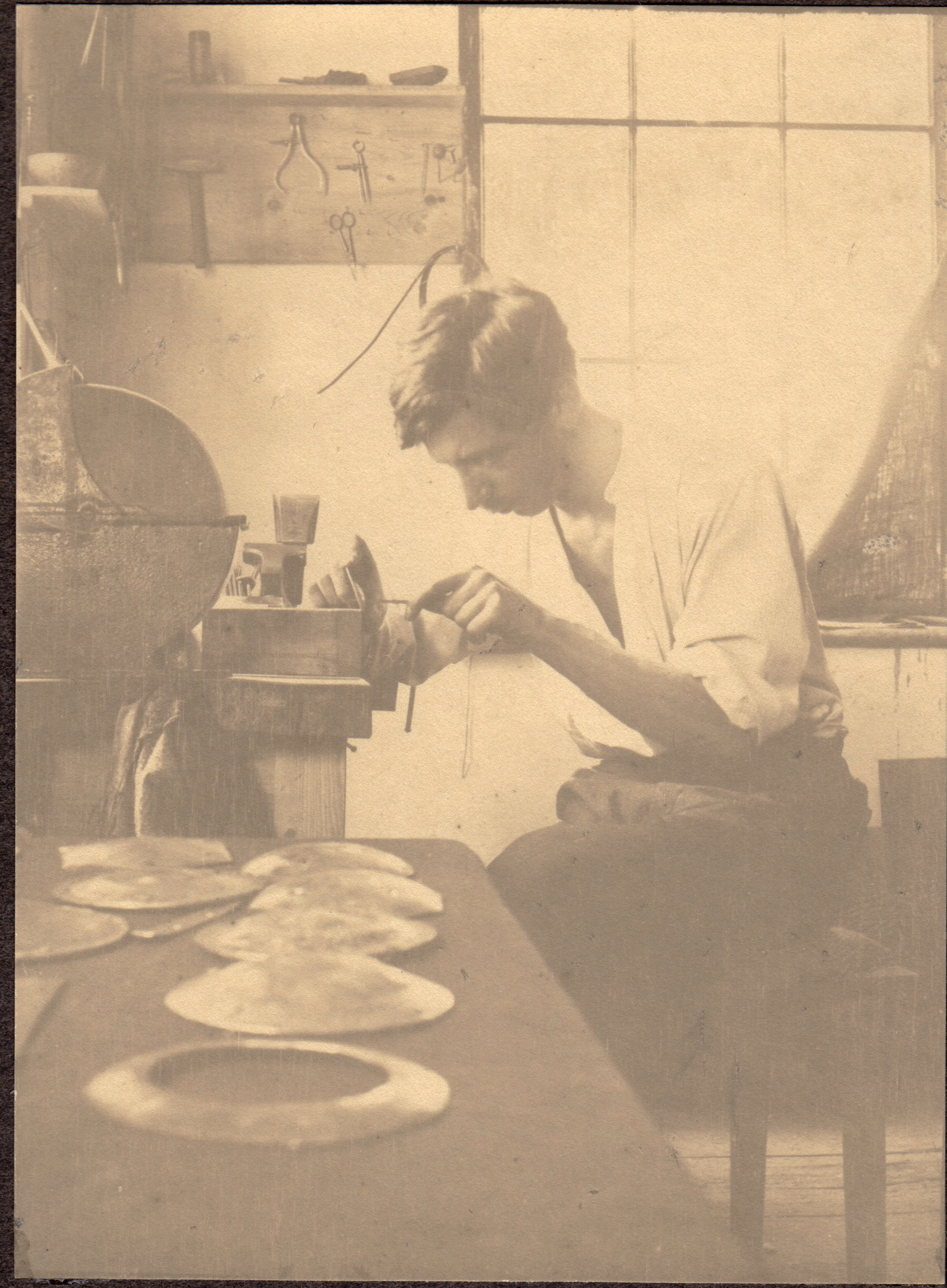 Der Kunsthandwerker Georg Mendelssohn in seiner Werkstatt in Hellerau